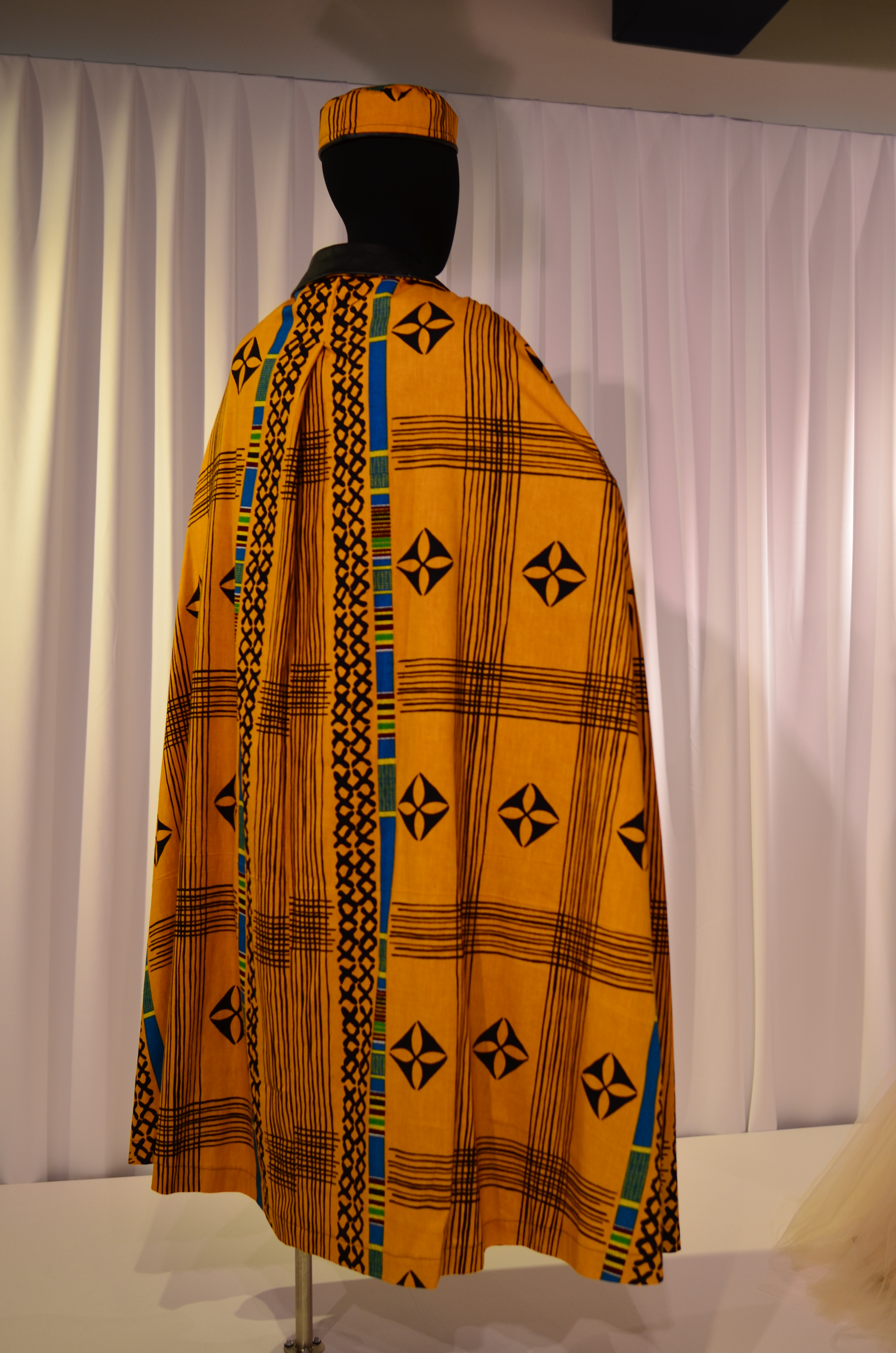 Church robe and hat in African cloth, worn in the 1970s and 1980s by Reverend Samuel B. McKinney of Seattle's Mount Zion Baptist Church, exhibited in "Seattle Style: Fashion/Function" exhibit (2019), Museum of History and Industy, South Lake Union, Seattle, Washington, USA.